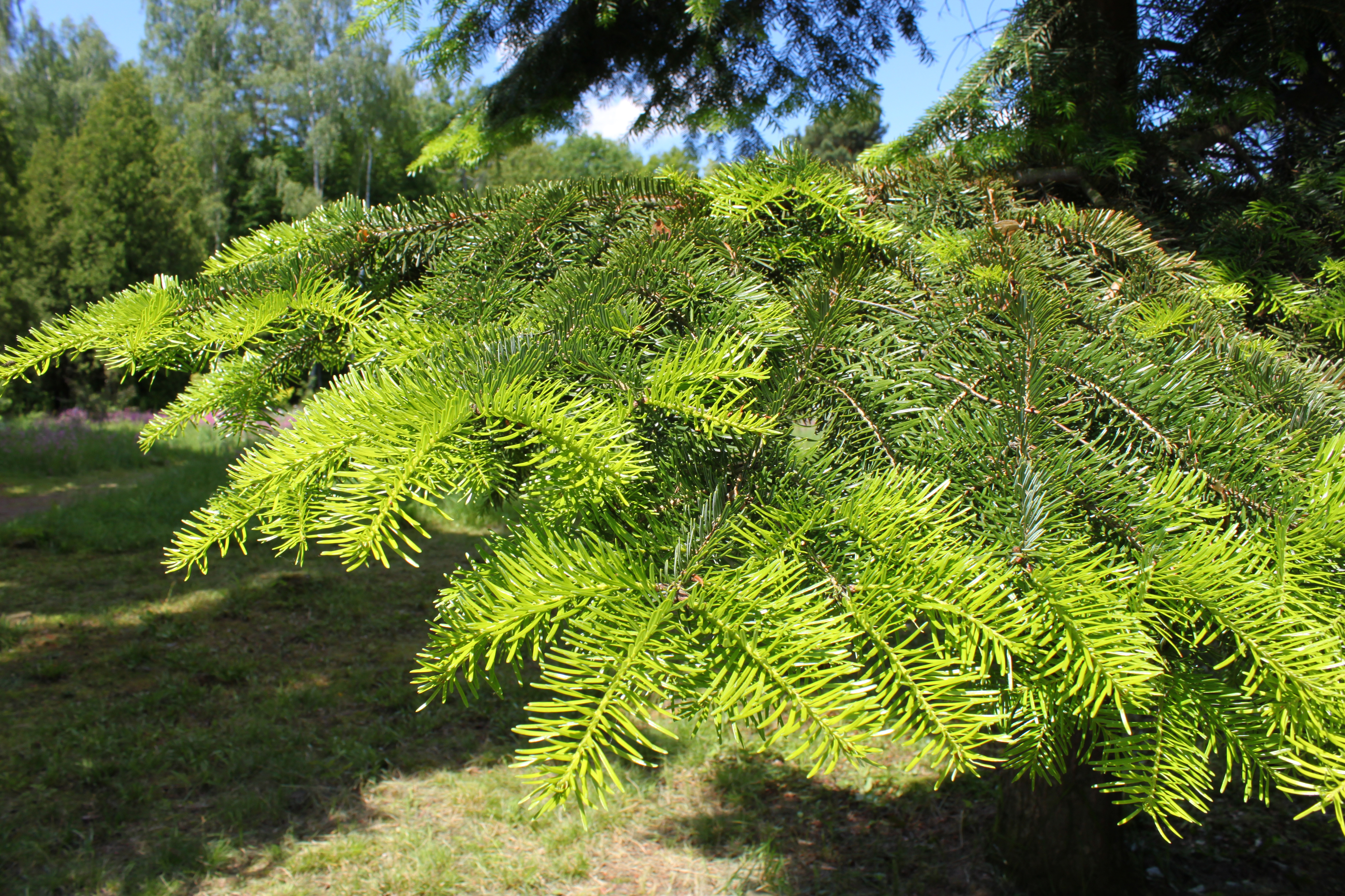 Siberian Fir (Abies sibirica) foliage in Rogów Arboretum, Poland